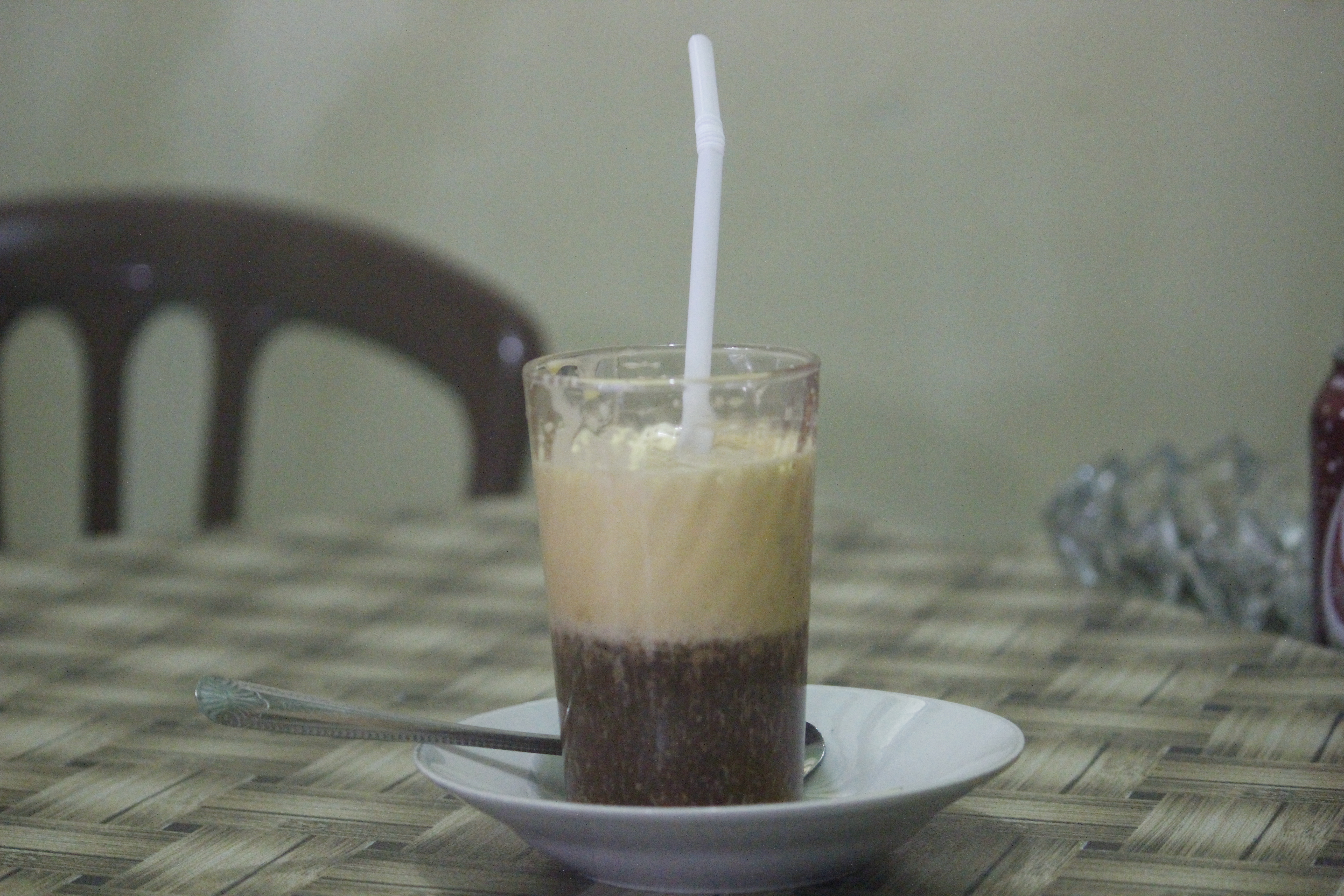 Teh talua (literally "egg tea", Minangkabau traditional beverage made ​​from tea mixed with eggs) in a warung in Padang, West Sumatra.